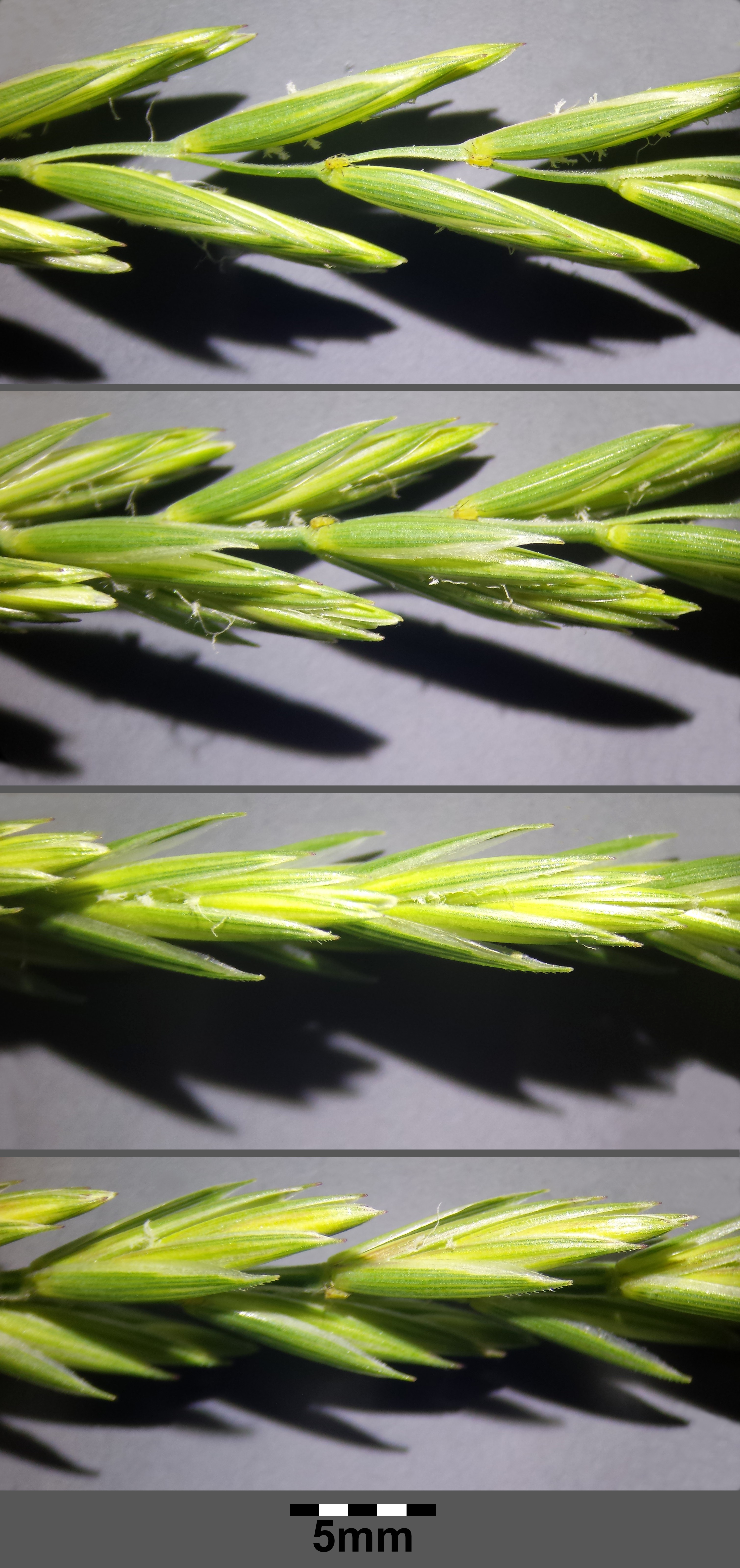 Spike Taxonym: Elymus repens ss Fischer et al. EfÖLS 2008 ISBN 978-3-85474-187-9 Location: near Niederhollabrunn, district Korneuburg, Lower Austria - ca. 350 m a.s.l. Habitat: meadows